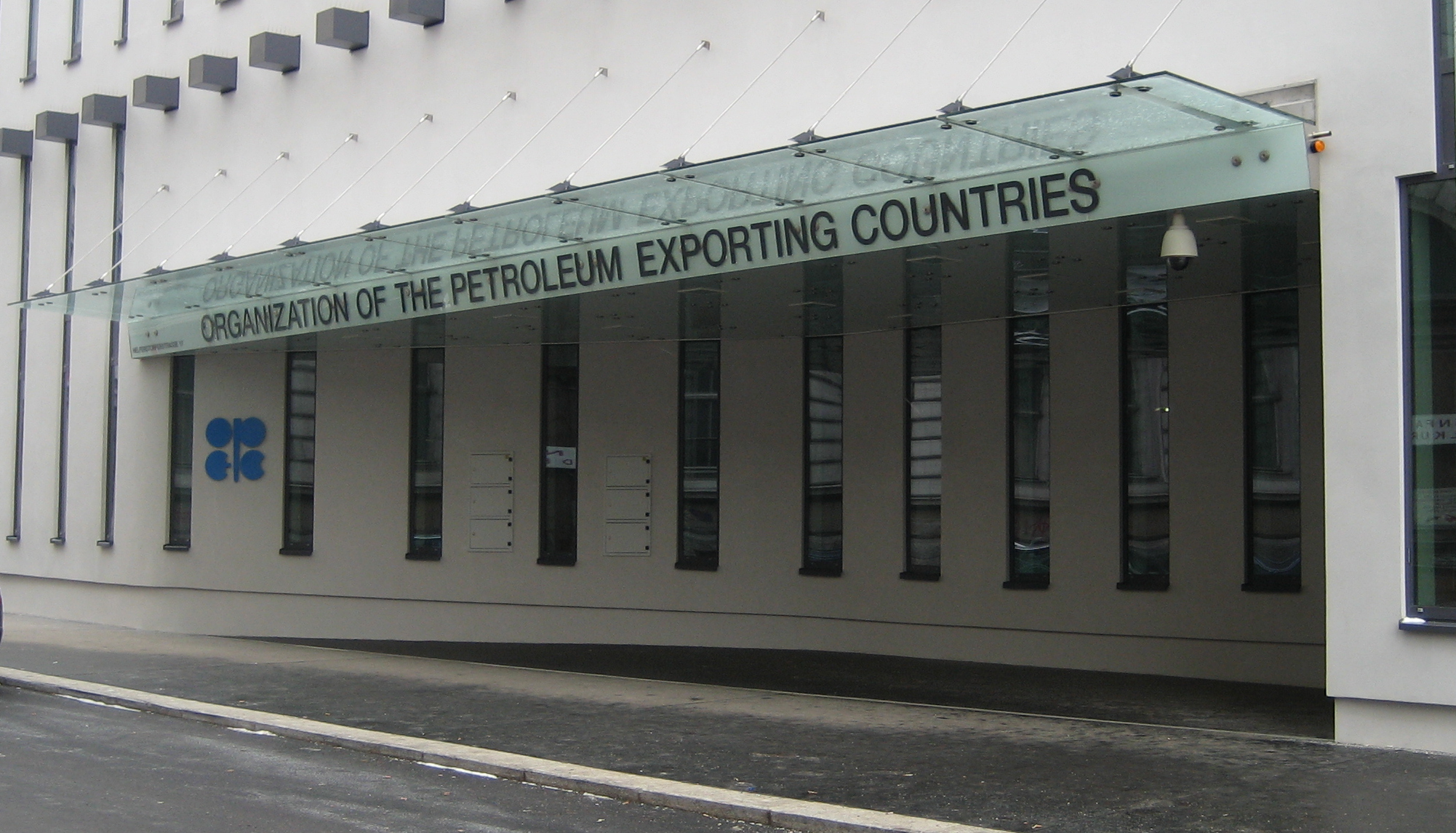 entrance of the OPEC headquarters in Vienna